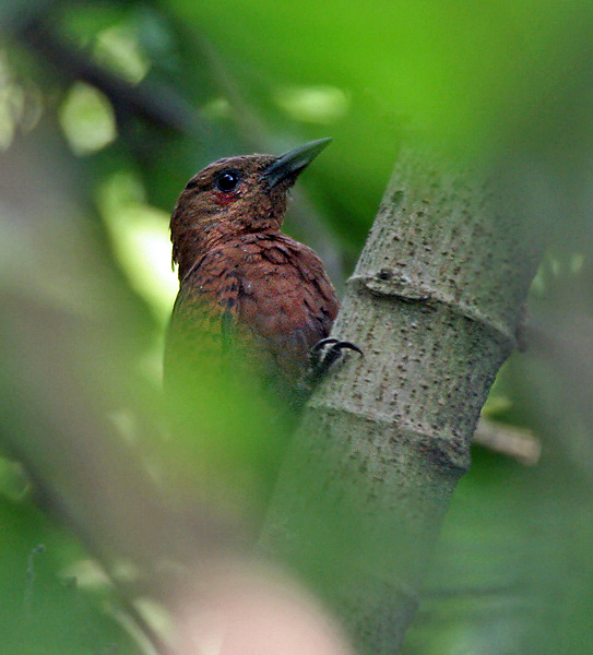 Rufous Woodpecker Celeus brachyurus in Kolkata, West Bengal, India.